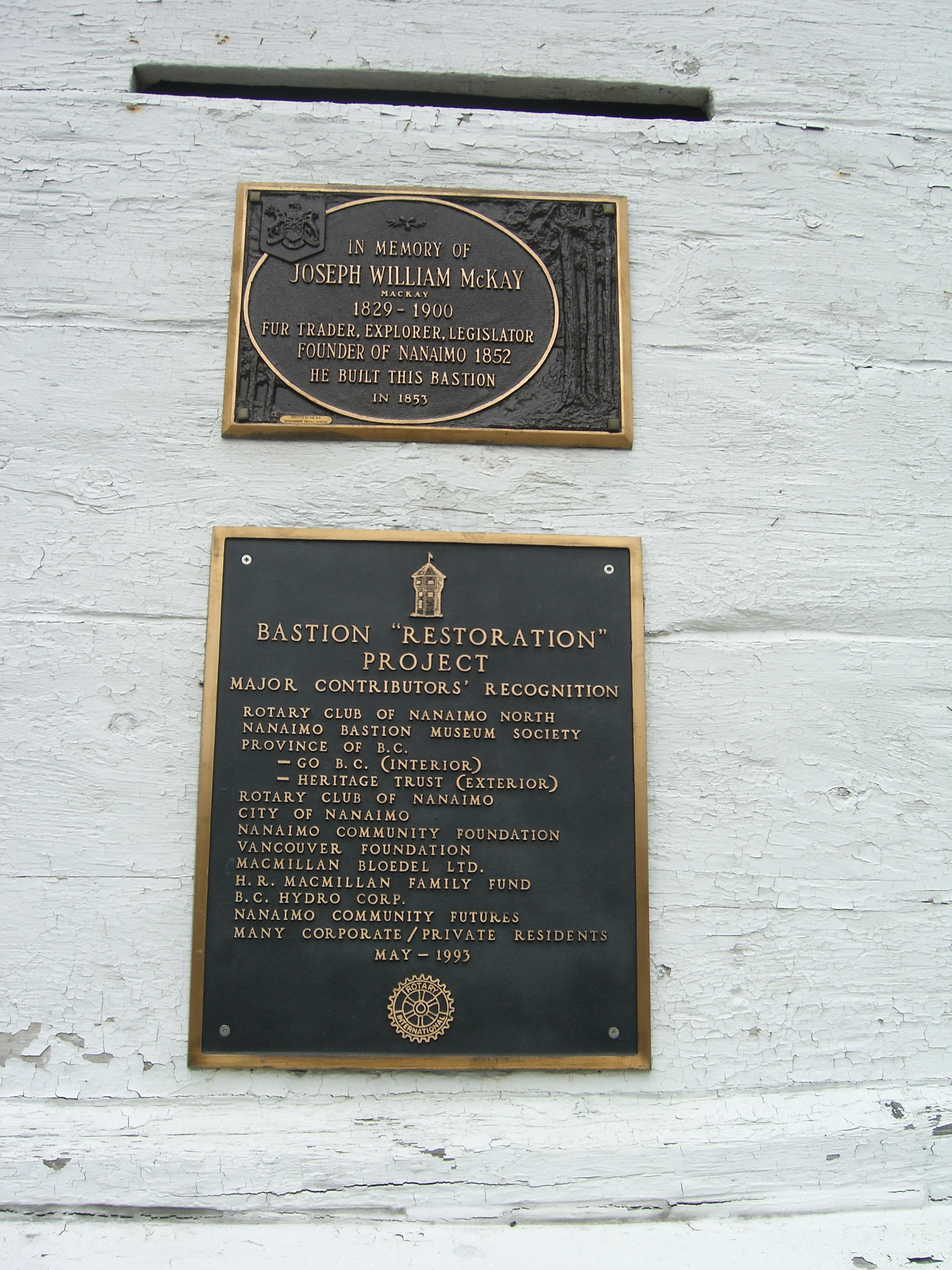 Historical plaque added to Nanaimo Bastion in 1993.